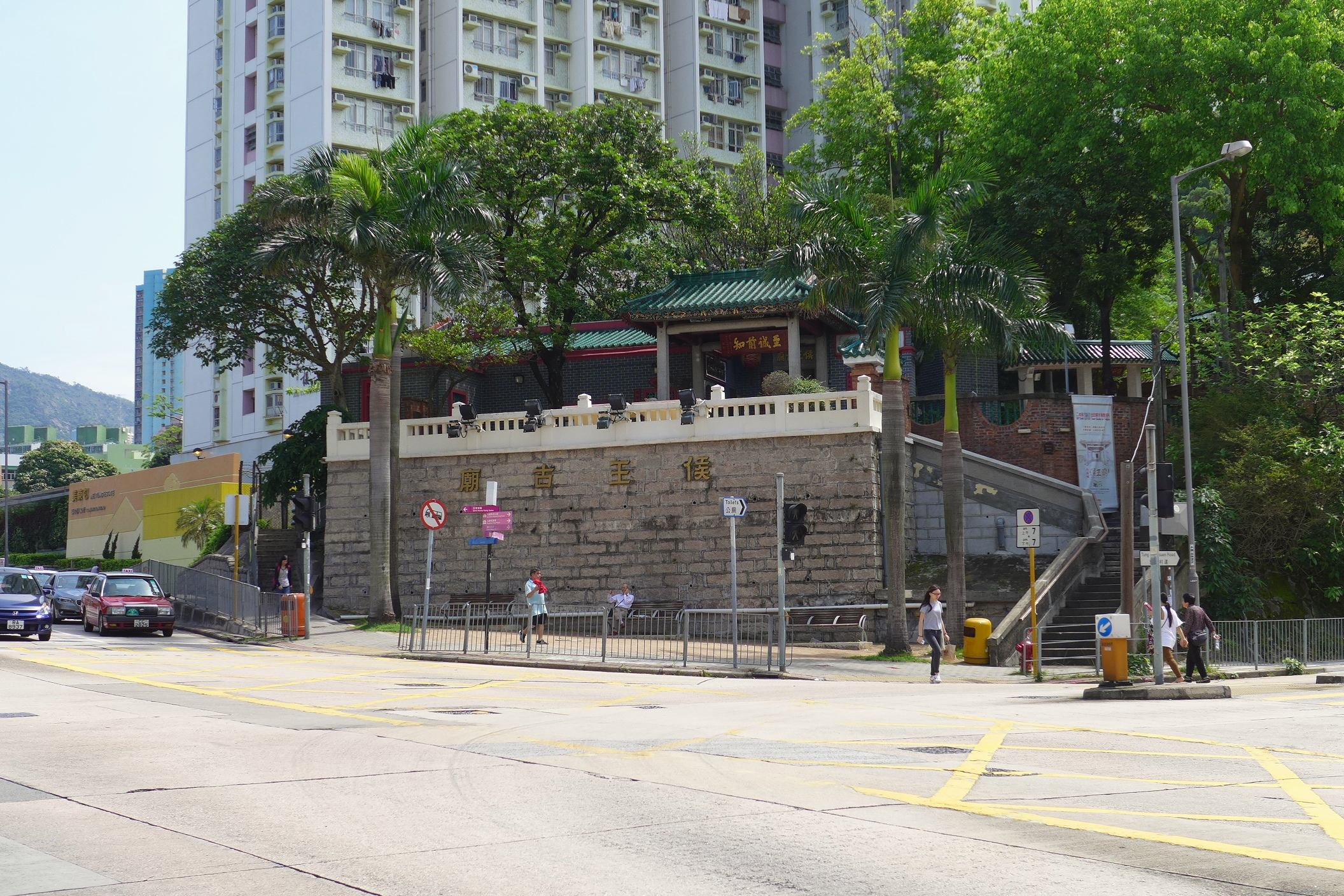 Hau Wong Temple in Kowloon City